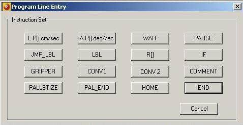 I created this interpretation of the instruction set of commands used by RoboLogix. I created this image using Adobe PhotoShop.